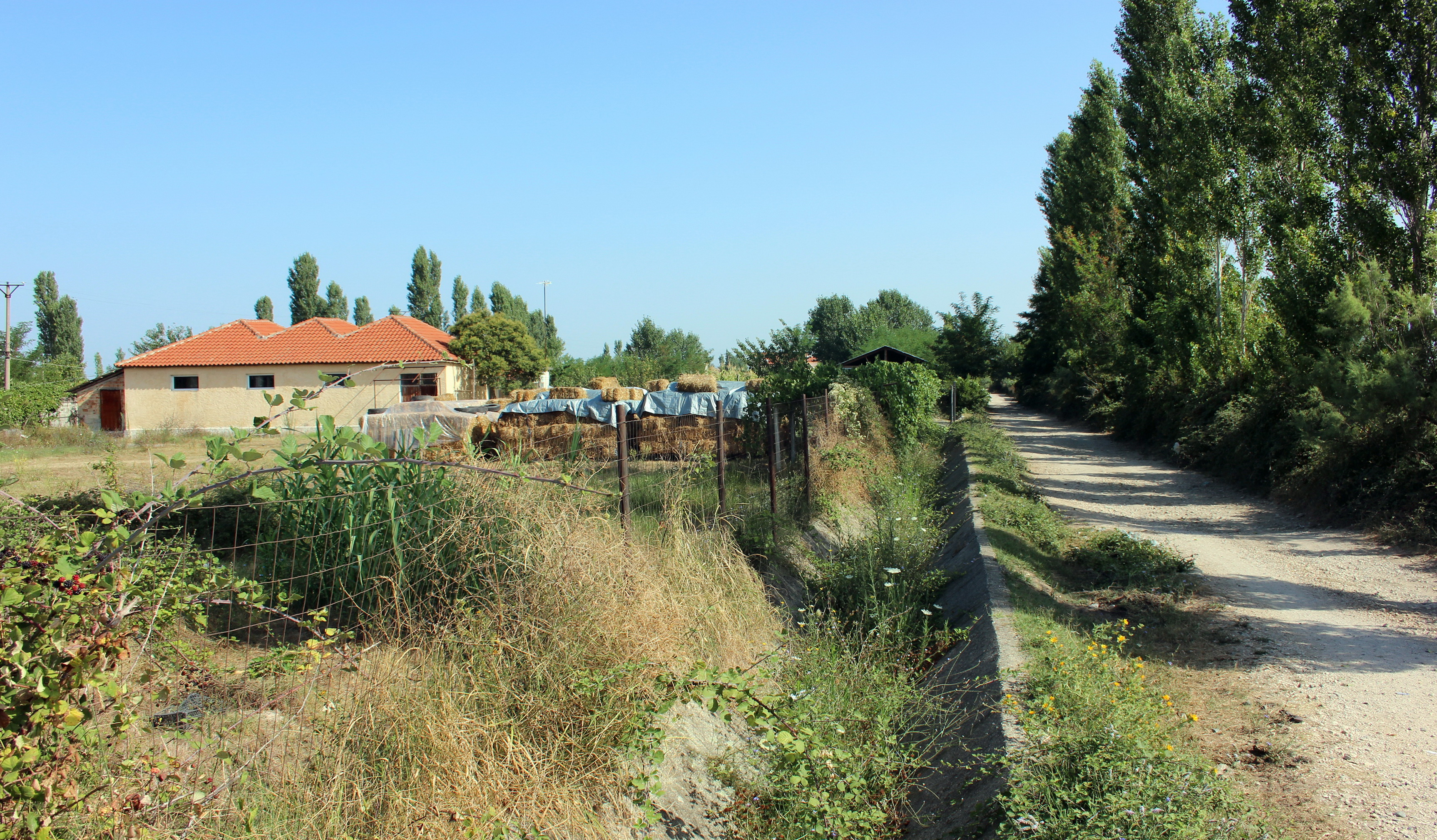 Former brewery Fushë-Kuqe, now a cowshed on the road to Patok. Right gravel.